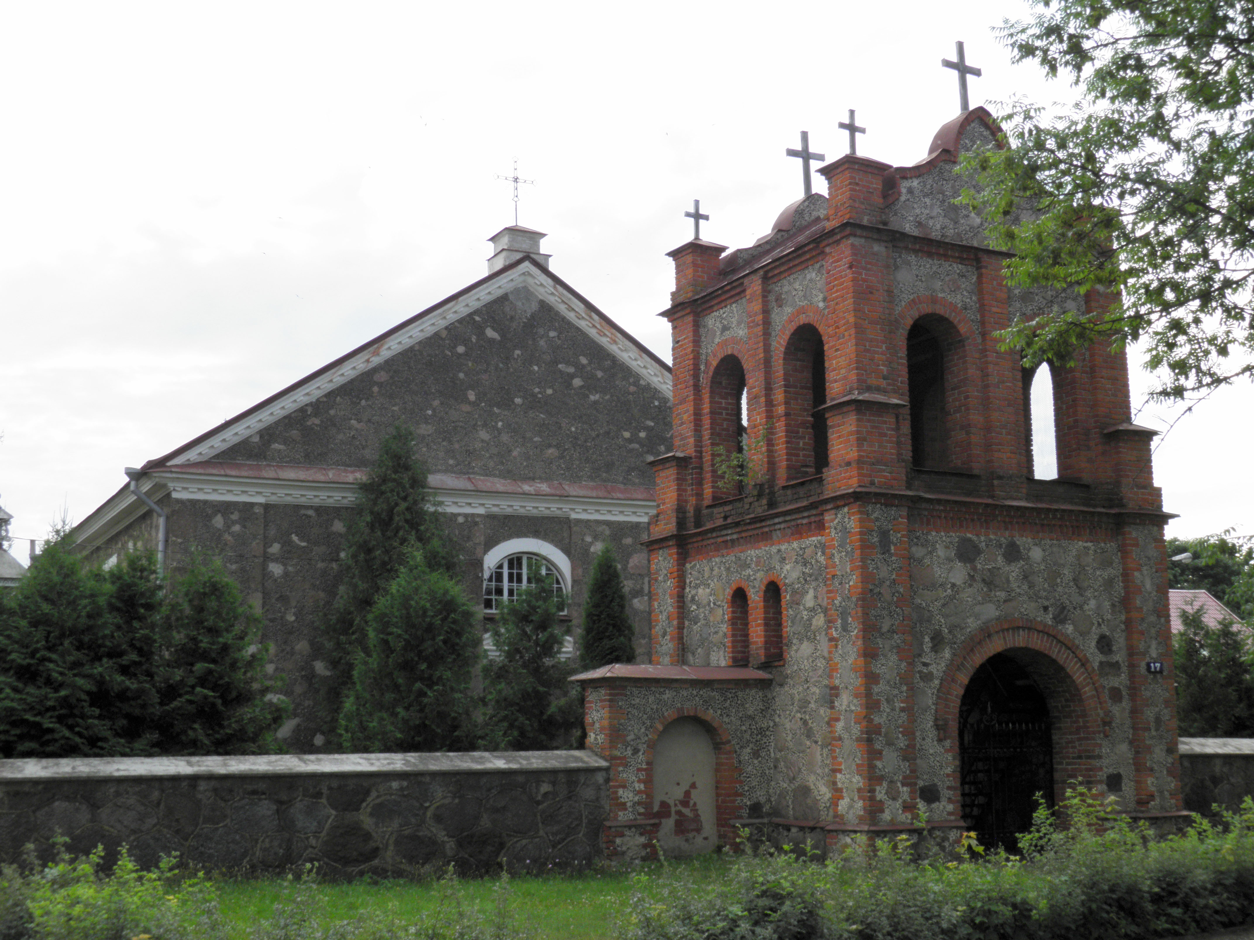 church